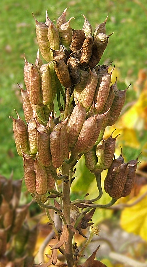 Aconite, Monkshood